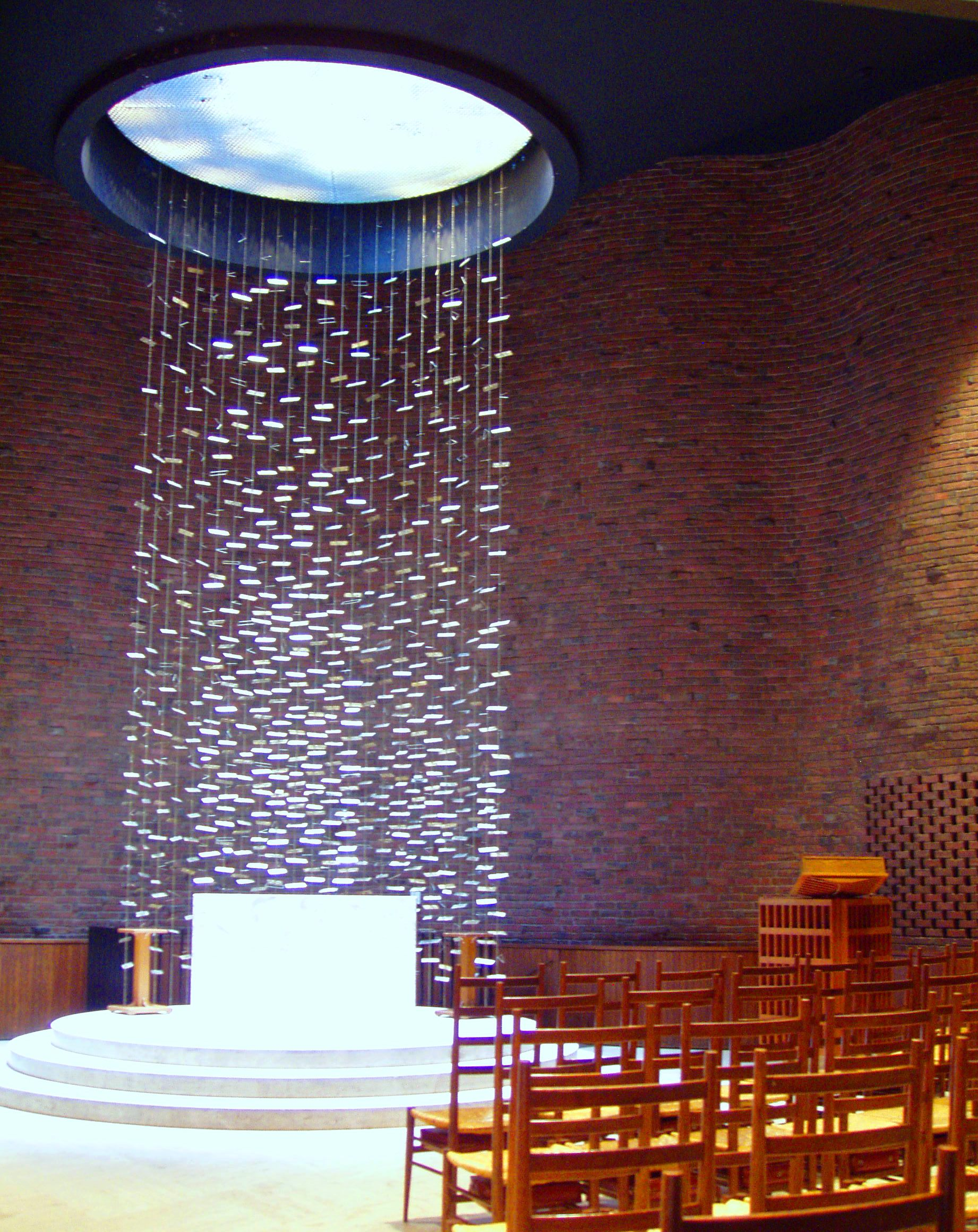 MIT Chapel, Massachusetts Institute of Technology campus, Cambridge, Massachusetts - interior. Architect Eero Saarinen. Photograph taken by me, September 2005.